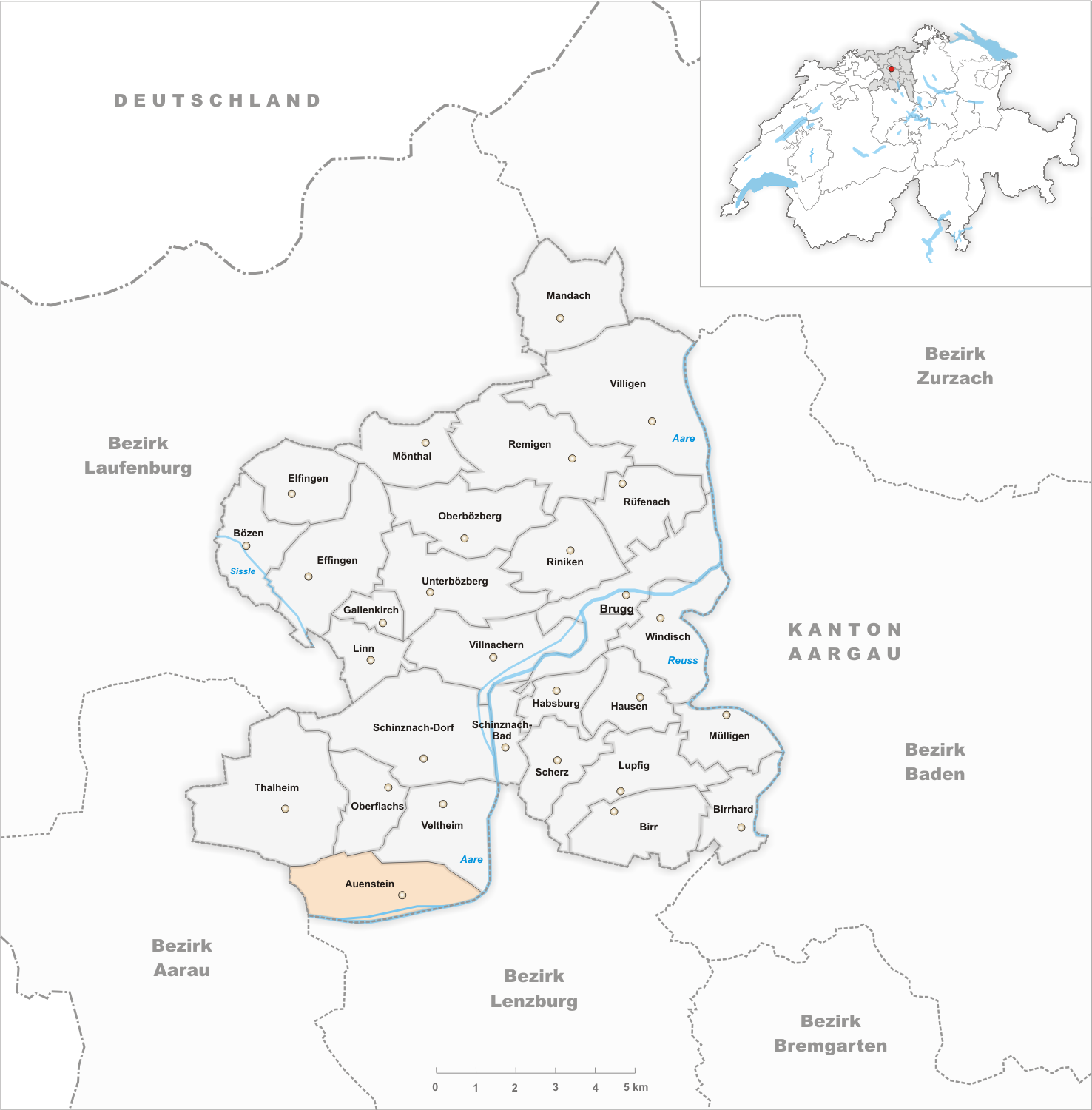 Municipality Auenstein